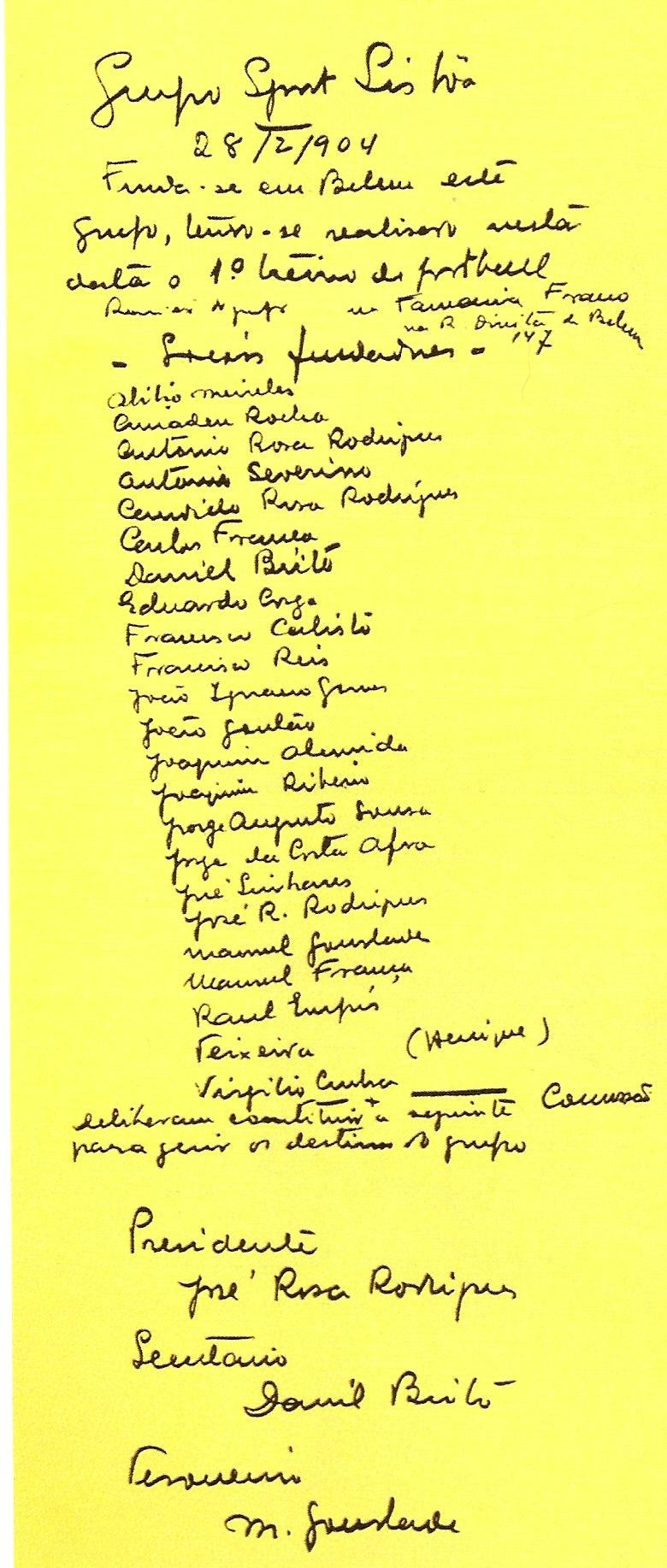 Foundation act of Sport Lisboa, now Sport Lisboa e Benfica.Signatures of the founders: Abílio Meireles, Amadeu Rocha, António Rosa Rodrigues, António Severino, Cândido Rosa Rodrigues, Carlos França, Daniel Brito, Eduardo Corga, Francisco Calisto, Francisco dos Reis Gonçalves, João Gomes, João Goulão, Joaquim Almeida, Joaquim Ribeiro, Jorge Augusto Sousa, Jorge da Costa Afra, José Linhares, José Rosa Rodrigues, Manuel Gourlade, Manuel França, Raul Empis, Henrique Teixeira, Virgílio Cunha.